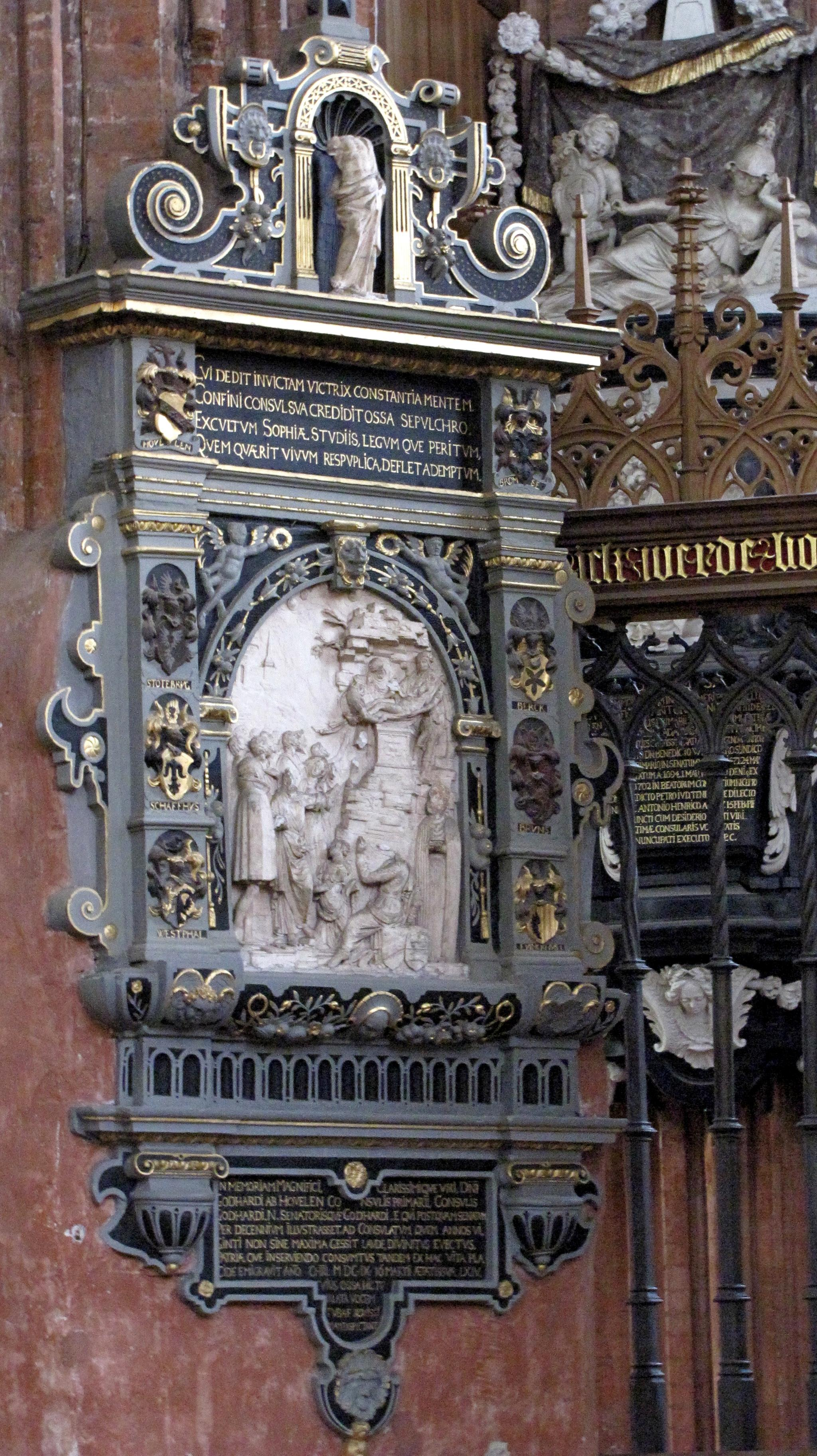 Epitaph for mayor Gotthard V. von Hoeveln, designed by Robert Coppens, St. Marien, Lübeck